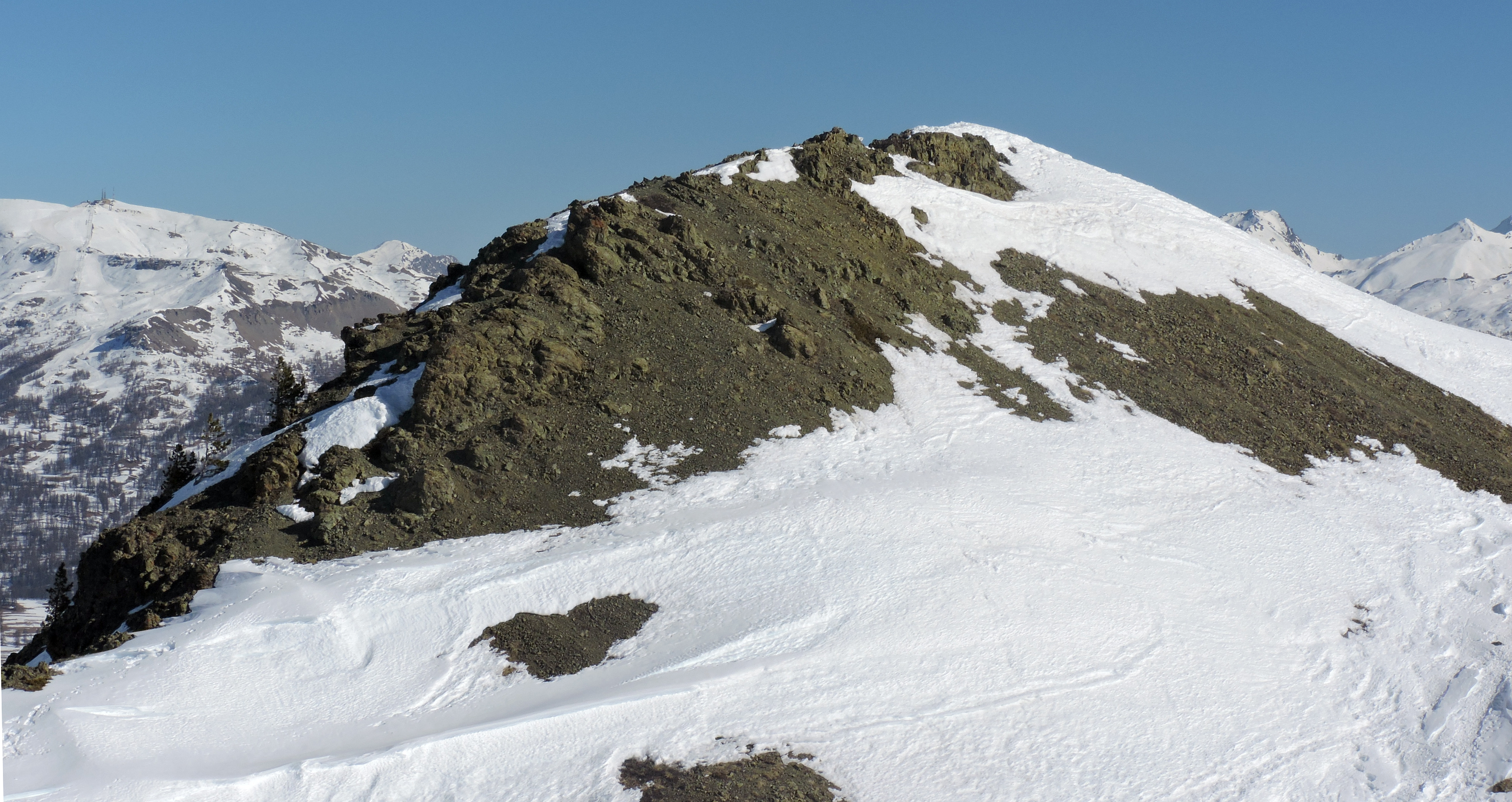 Cima Saurel as seen from its subsummit (Cottian Alp)